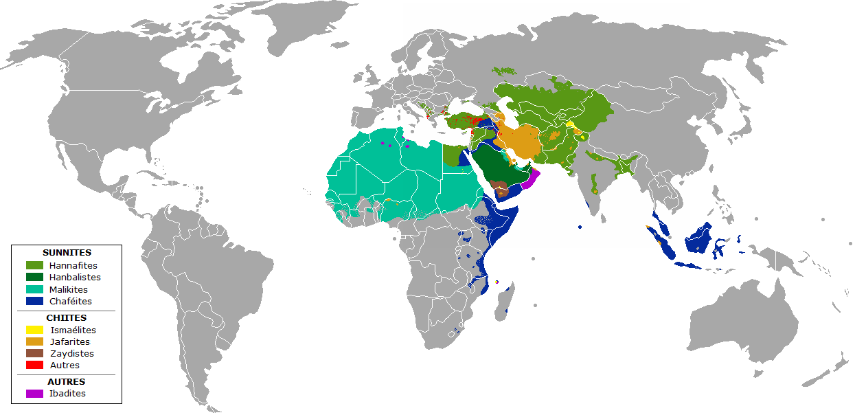 Madhhab map